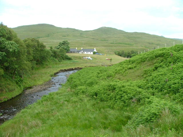 Allt Choire Mhuilinn The house is Caim, belonging to Ardnamurchan Estate.